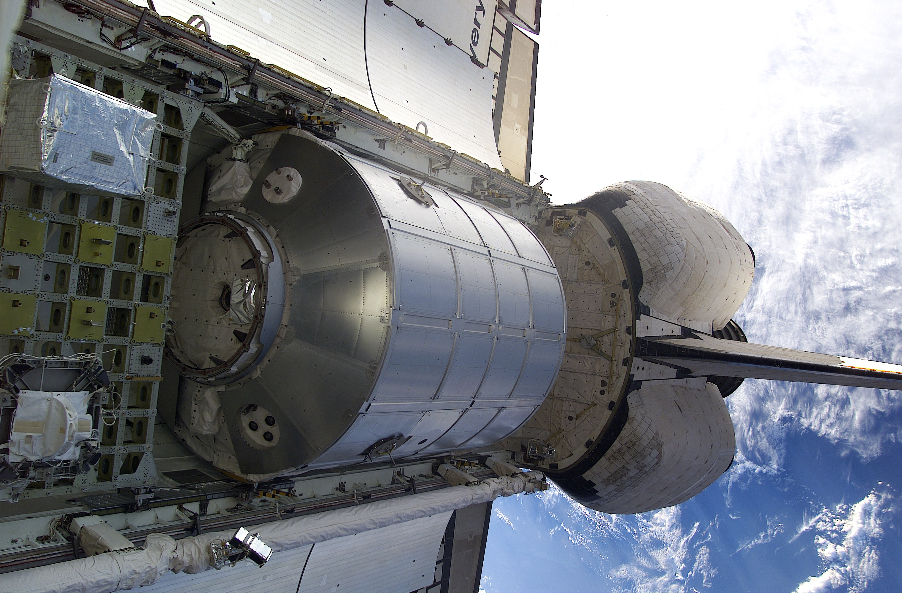 The Leonardo Multi Purpose Logistics Module rests in Discovery's payload bay in this view taken from the International Space Station by a crew member using a digital still camera. To the left of the MPLM you can see a glimpse of External Stowage Platform-1.